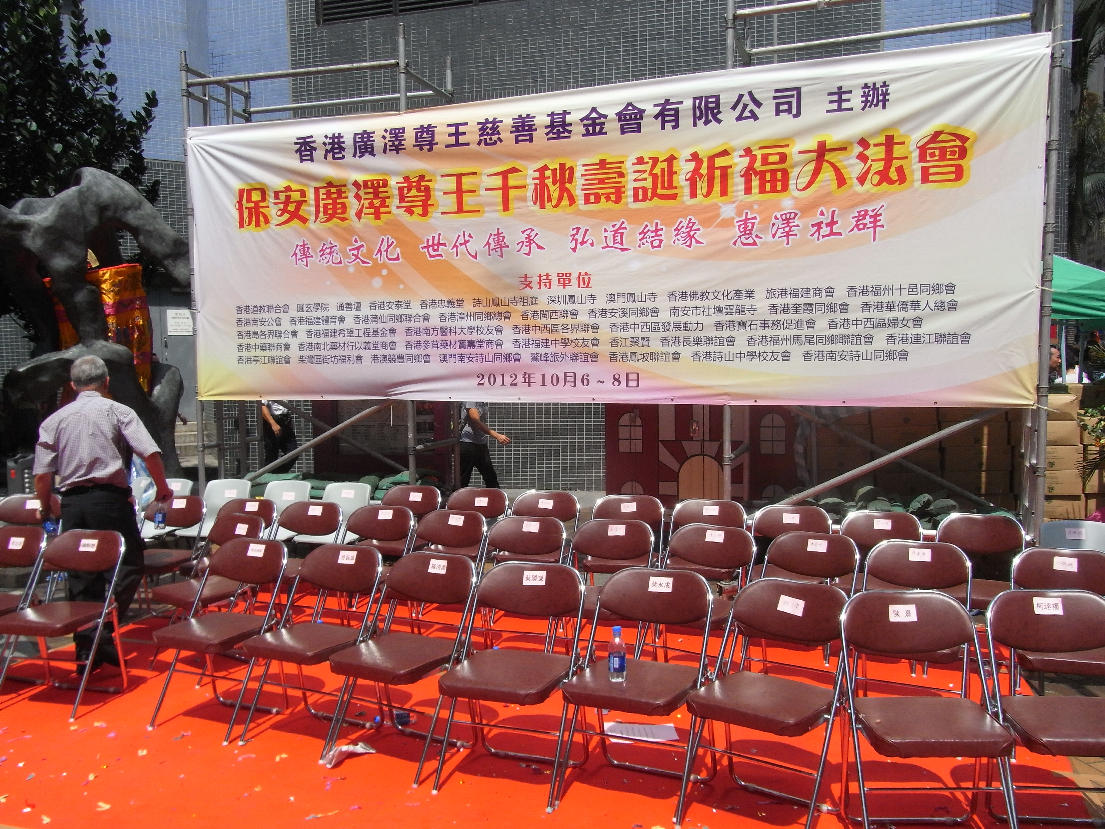 上環 廣澤尊王, Chinese Guang Ze Zun Wang Charitable Fund event, Sheung Wan, Hong Kong